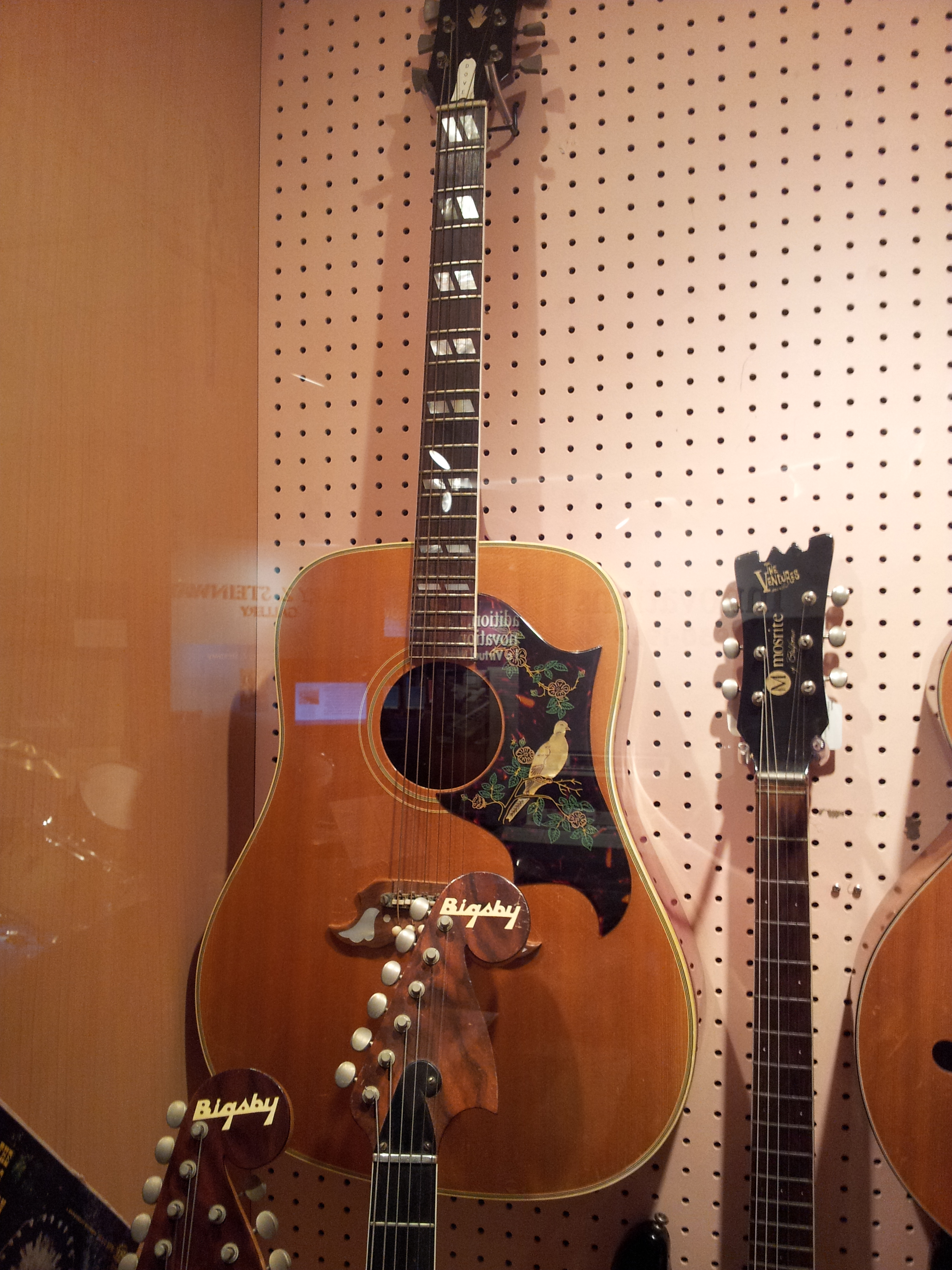 Gibson Dove, Mosrite, Bigsby, Museum of Making Music